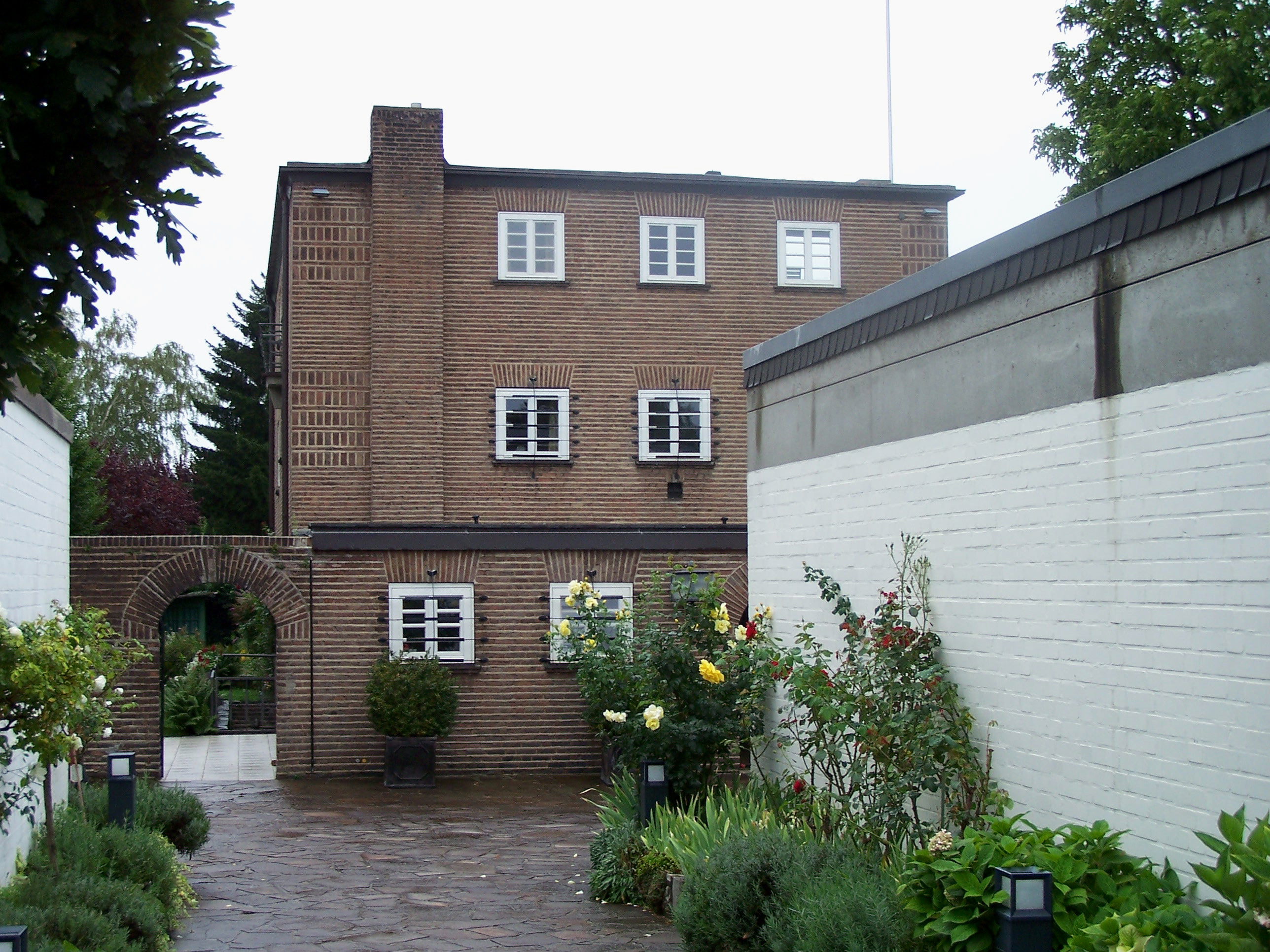 Former residential building of architect Martin Elsaesser in Frankfurt am Main-Ginnheim